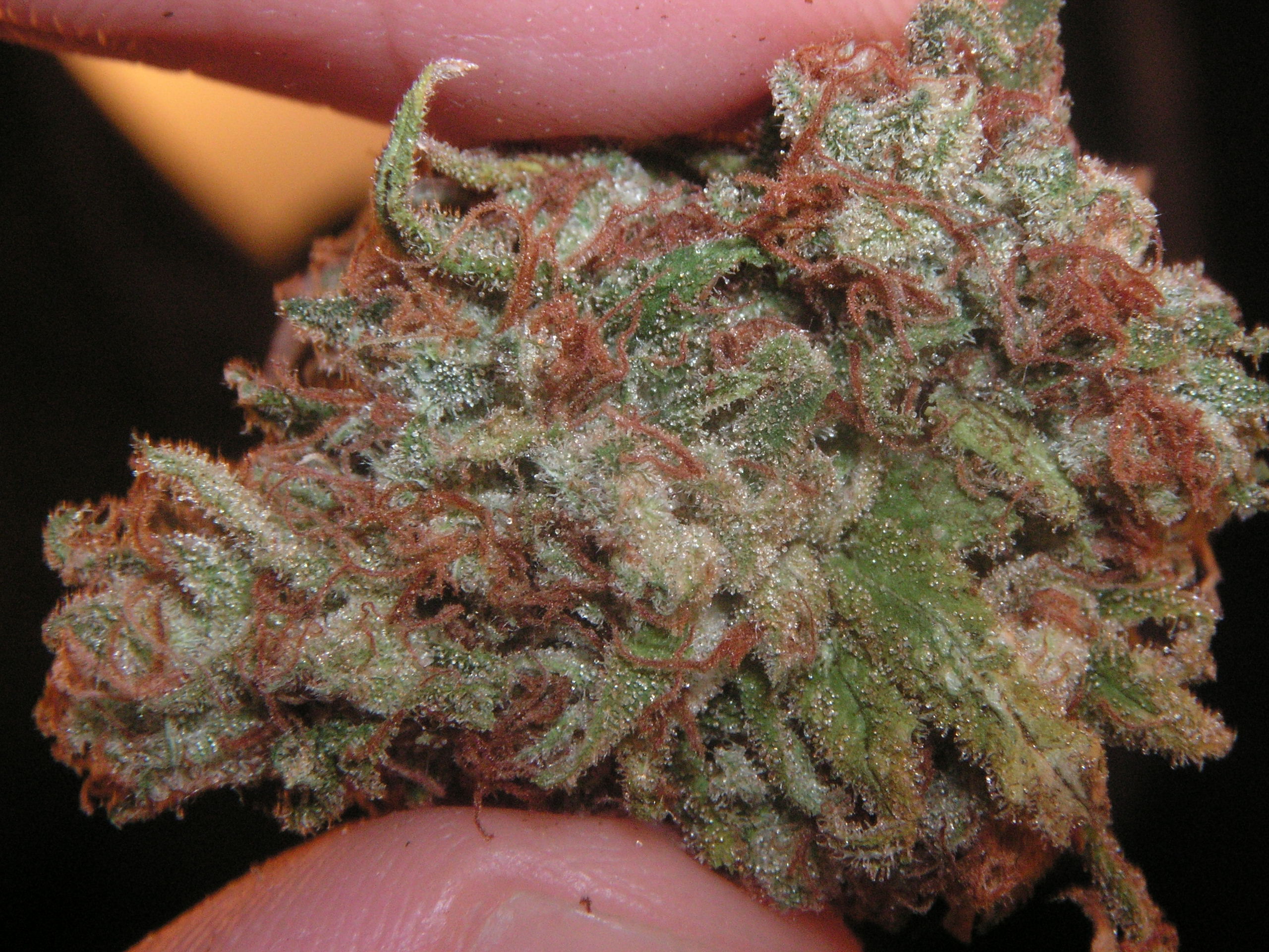 Homegrown Dank